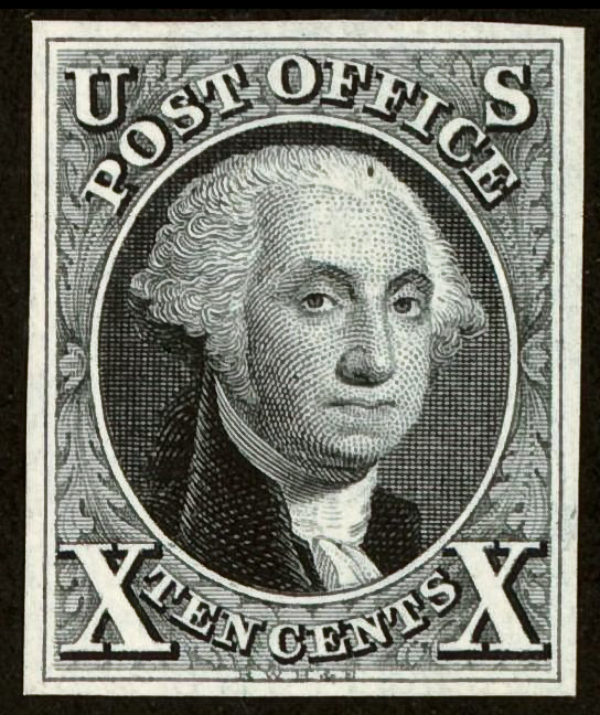 George WashingtonEngraving (reversed) modeled after a portrait by Gilbert StuartElliott Perry plated the 1847 issue 10-cent stamp. There are four double transfers and many well-known varieties printed from this plate. The US Government demonetized the 1847 issue July 1, 1851 and replaced them with new issues and with new postal rates. The contract to print the new issue was not awarded to private company of Rawdon, Wright, Hatch & Edson, which retained ownership of the 1847 printing plates and dies. From that point onward, all printing contracts provided for government possession of all the plates and dies. It is assumed by historians that because the government did not have control over the printing plates they had cause to demonetize the 1847 issues.